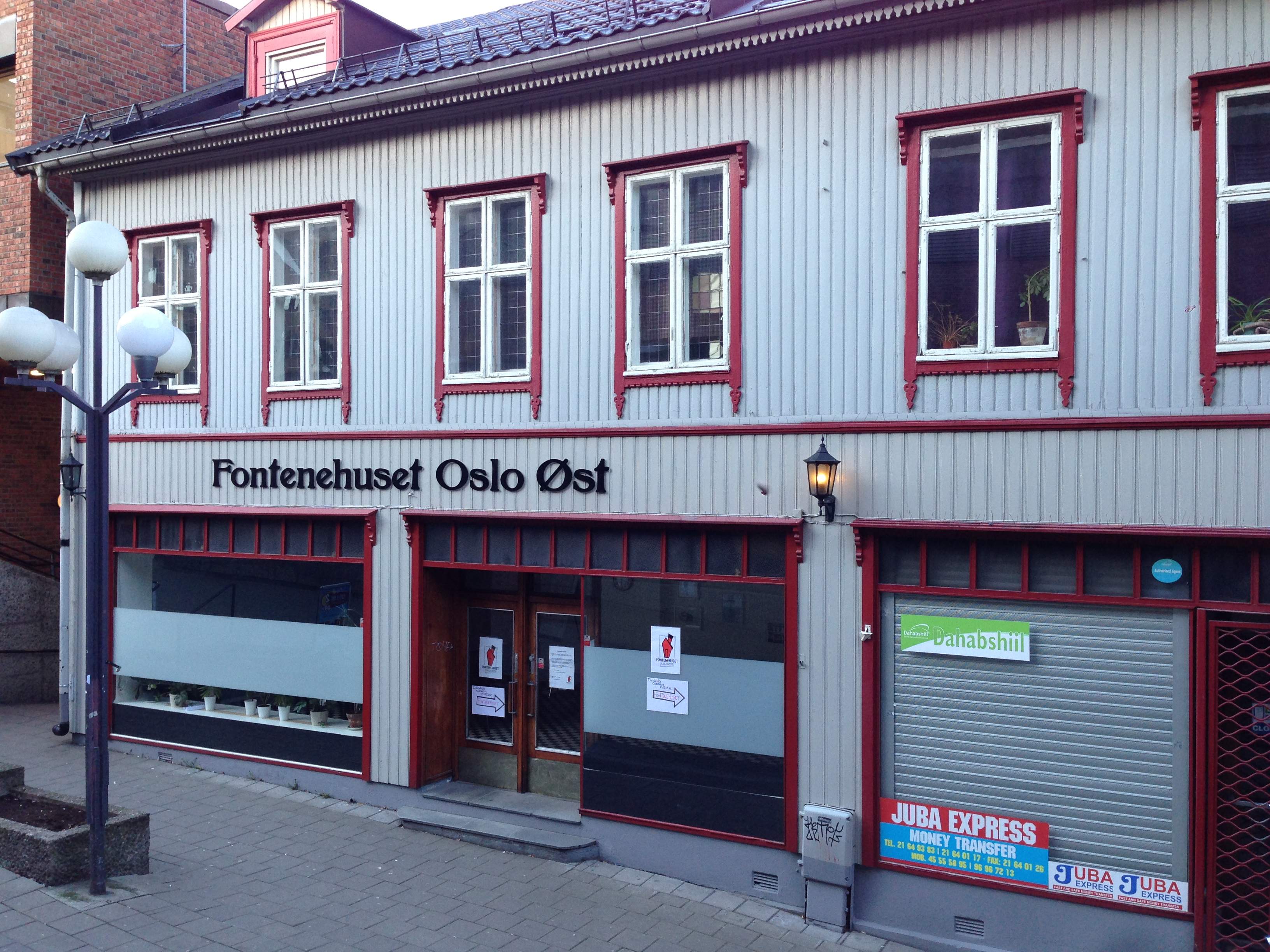 Fountain House in Tøyen, Oslo, Norway.